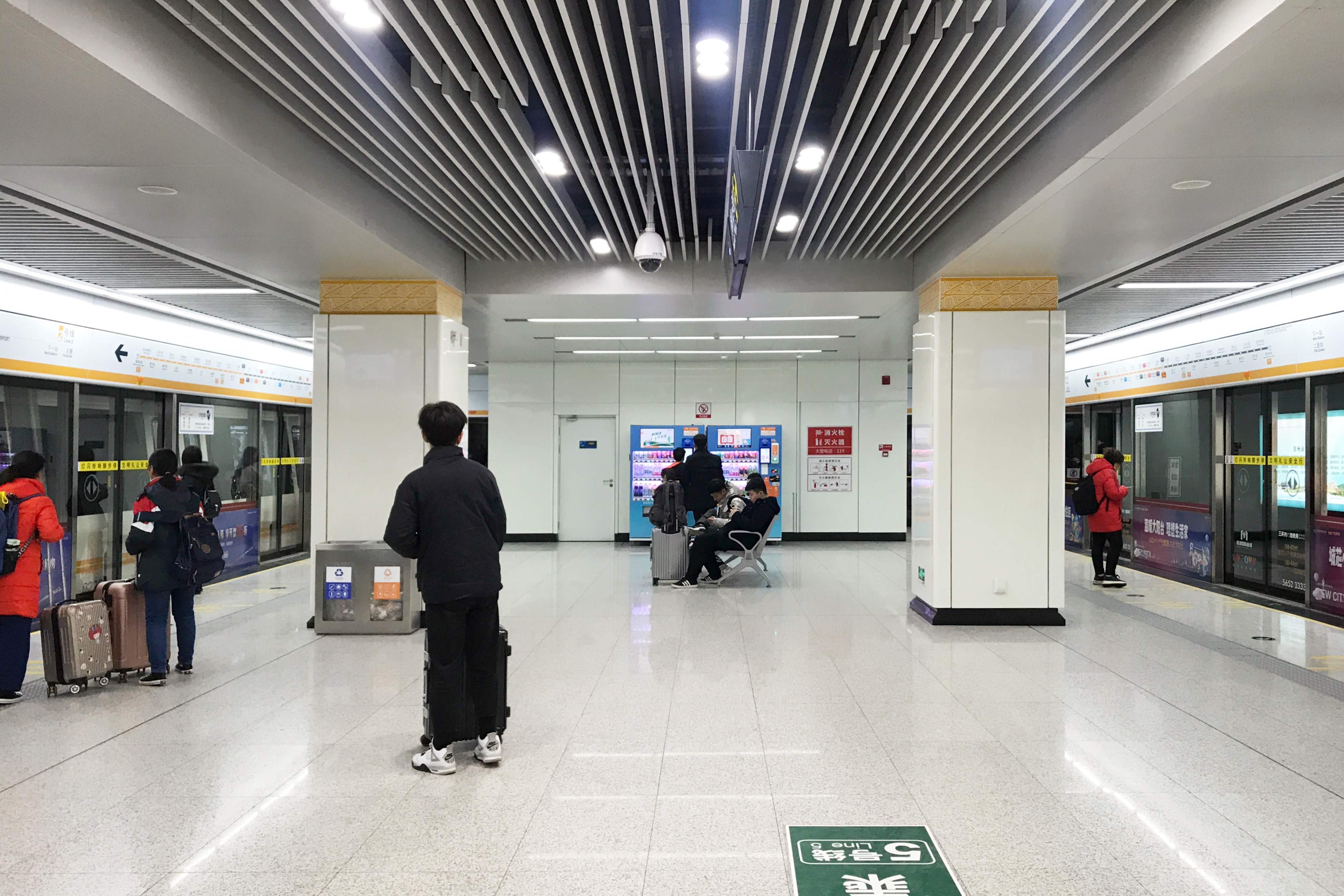 Platform for Line 2 at Zhengzhou Metro Nanwulibao Station